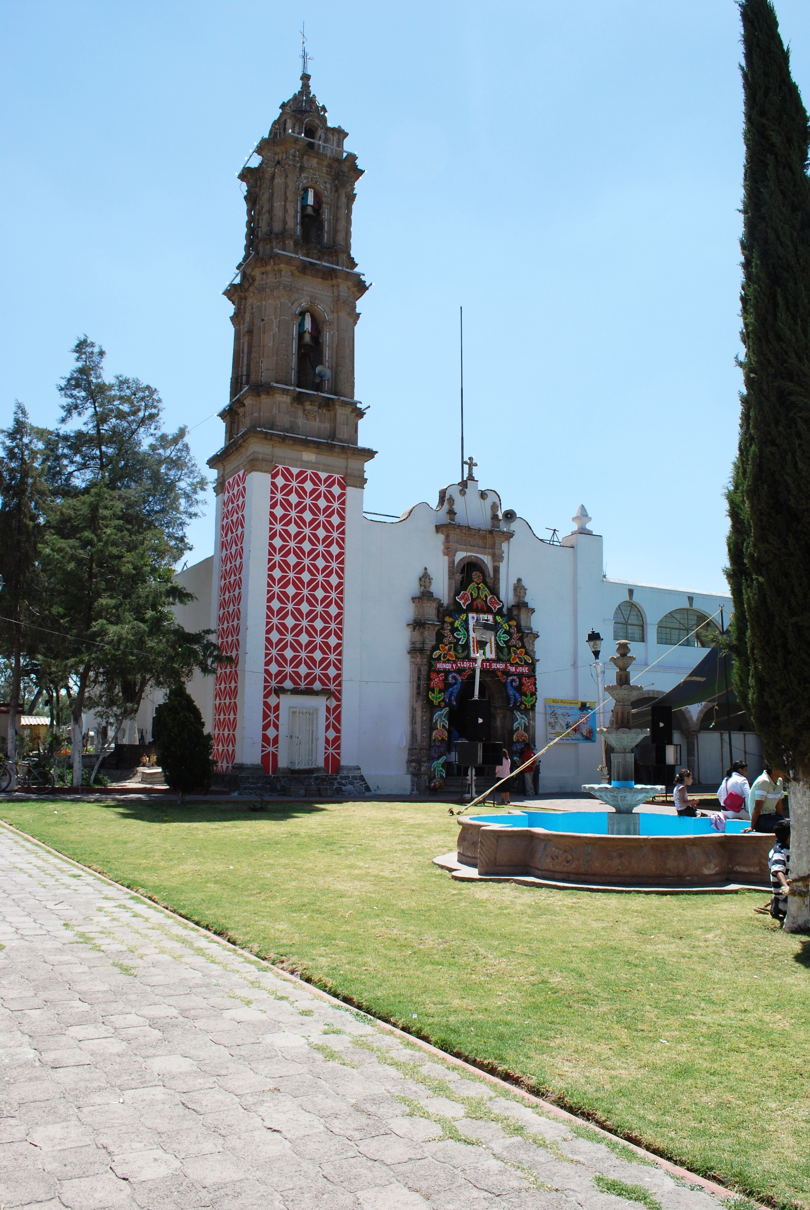 Church of Nuestra Señora de la Purificacion in Teotihuacan, Mexico State